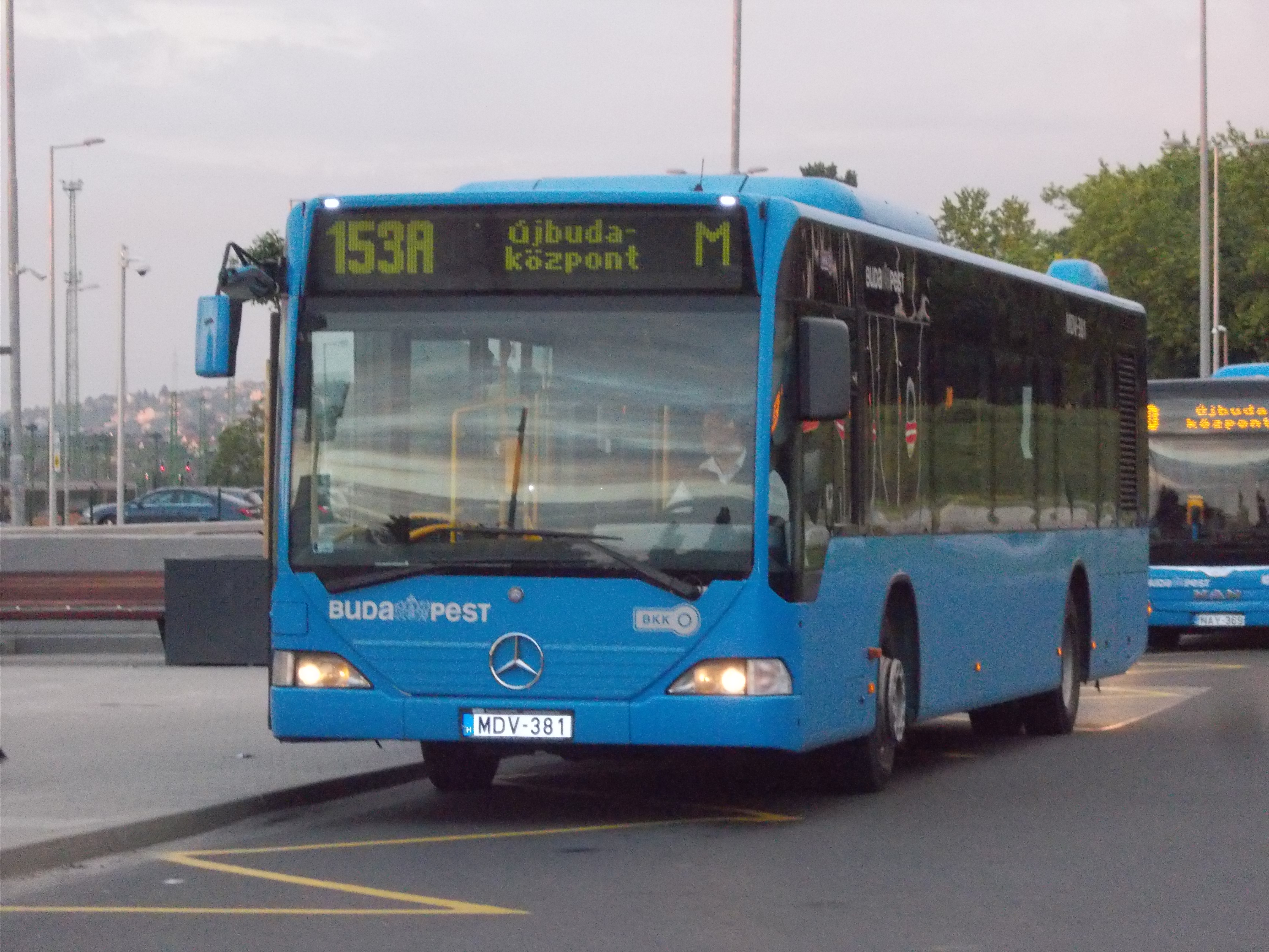 Mercedes-Benz Citaro bus on last day of former bus line 153A in Kelenföld local bus station, Budapest District XI